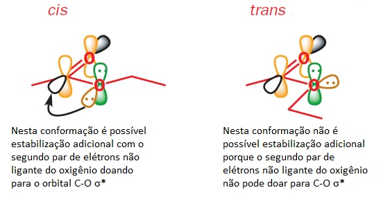 Estabilização secundária de ésteres